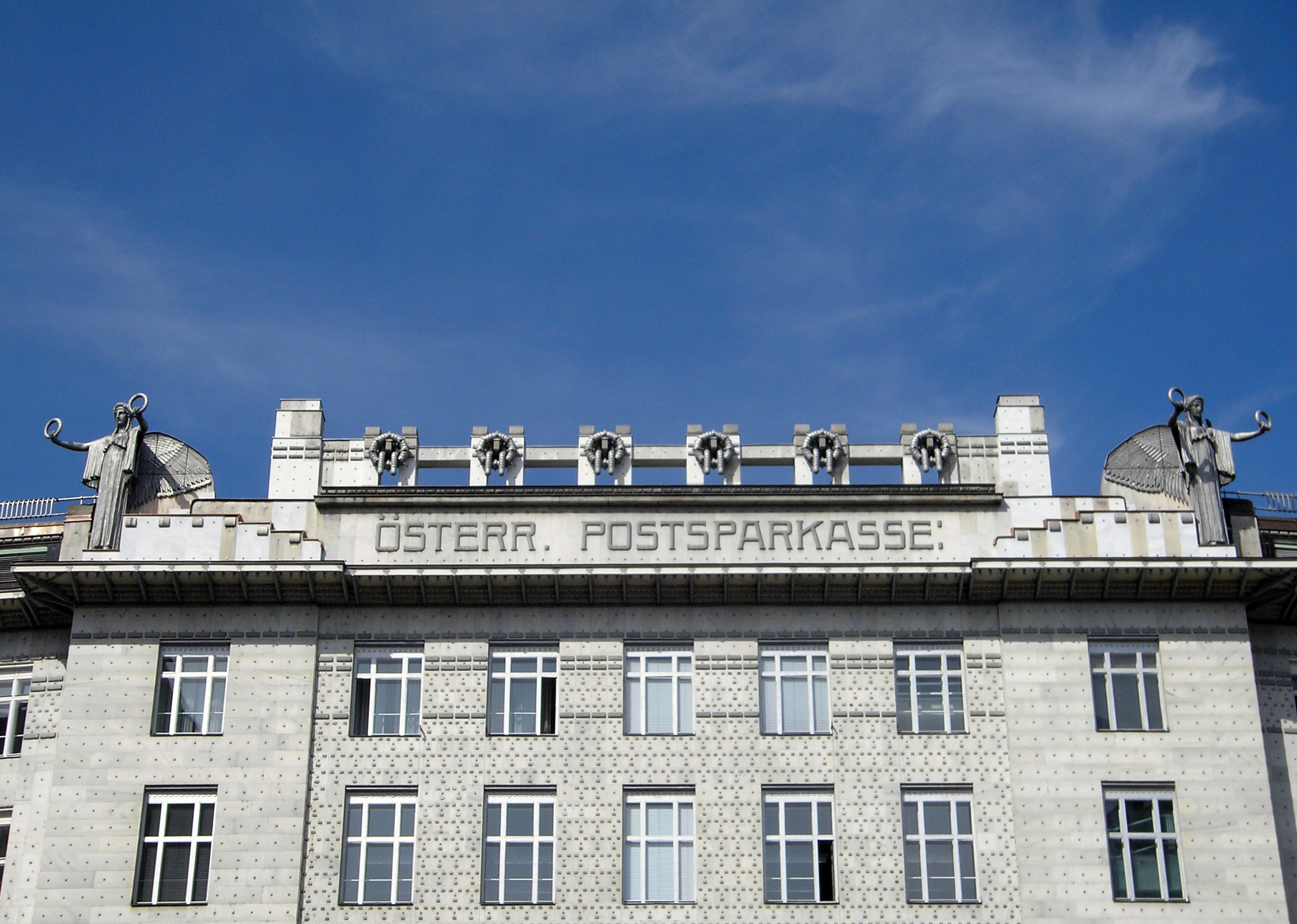 Detail image of the roof of the Österreichische Postsparkasse (P.S.K.), constructed by Otto Wagner.